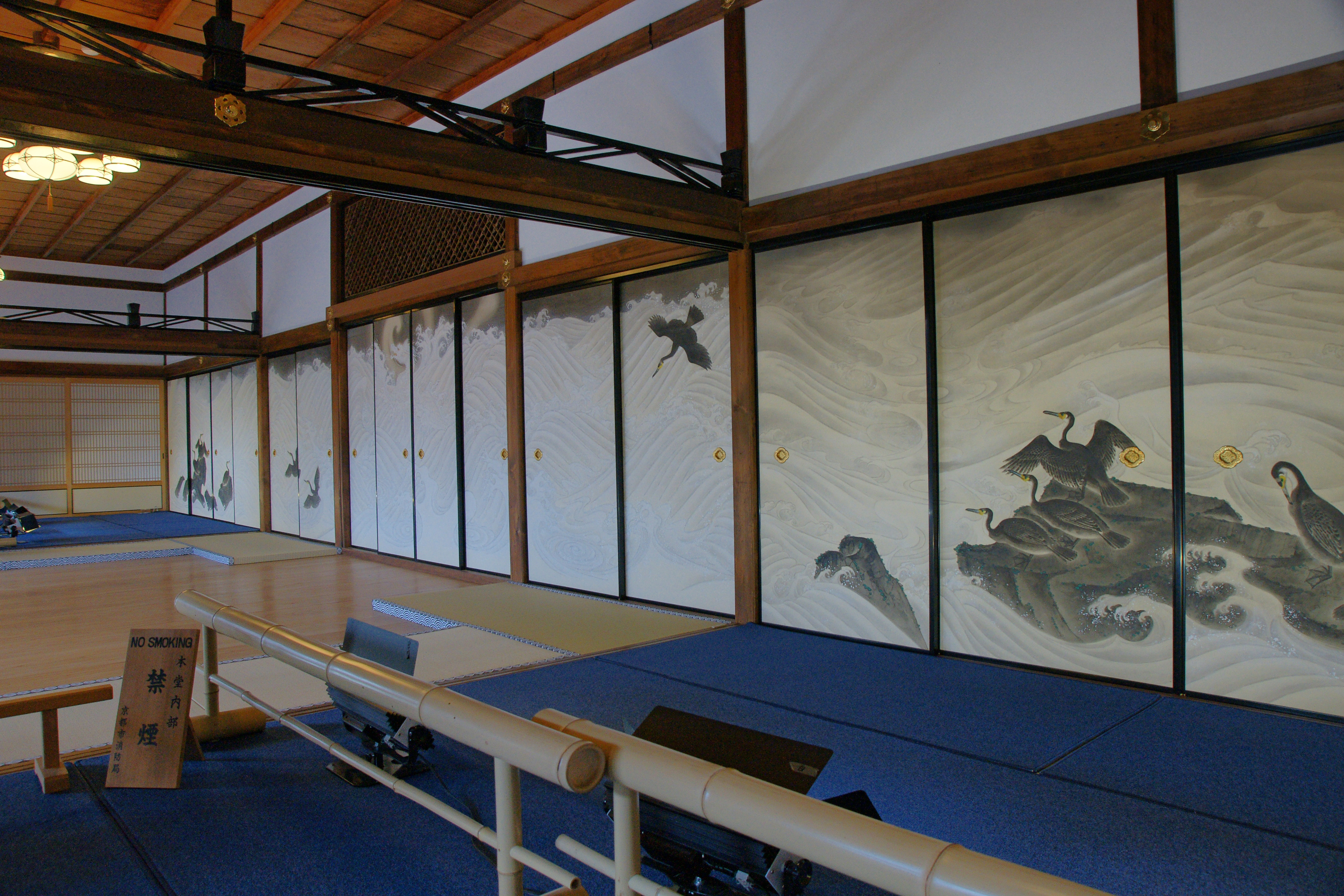 Entokuin in Higashiyama-ku, Kyoto, Kyoto Prefecture, Japan